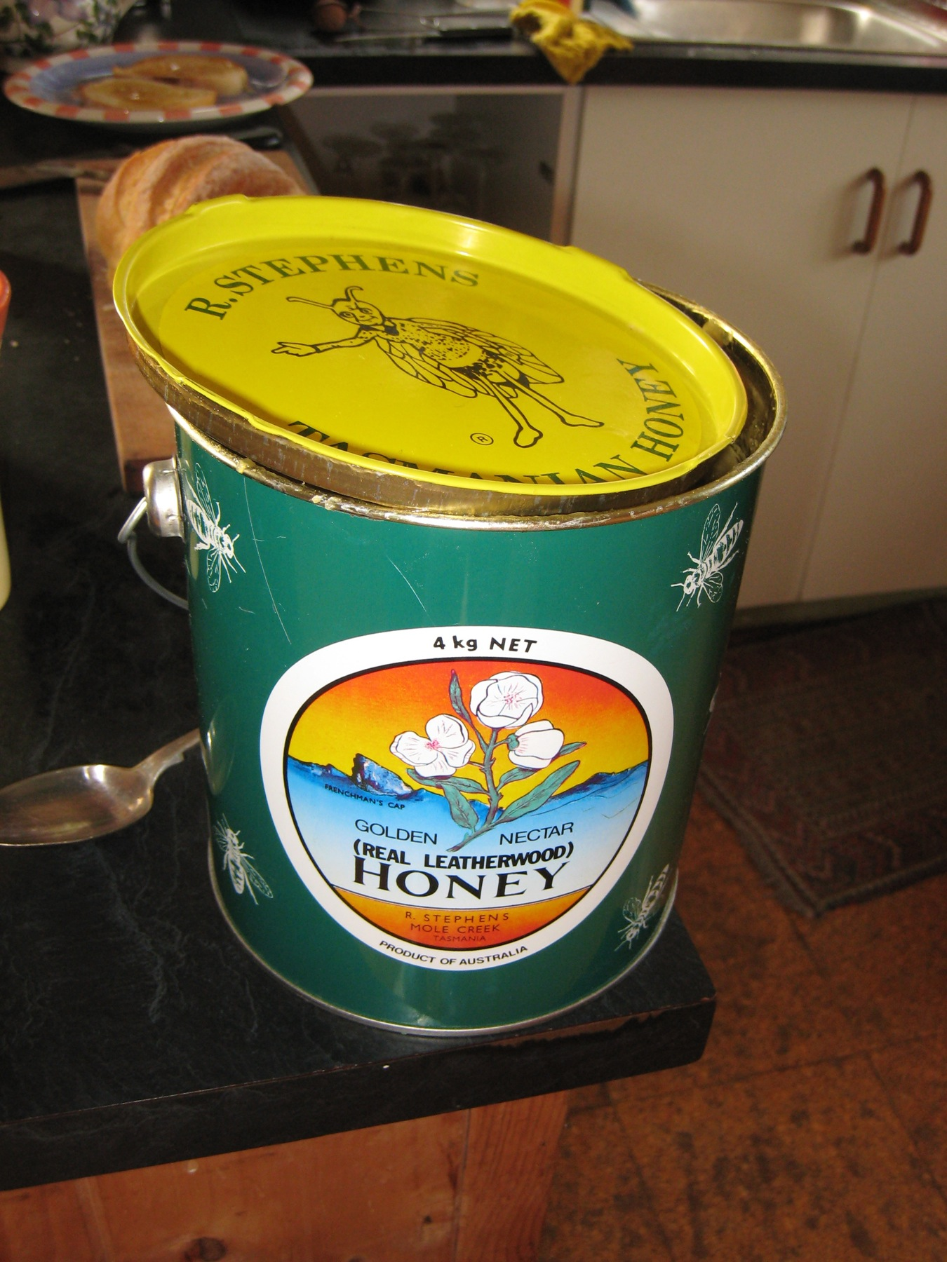 comes in a paint can size